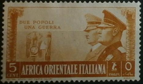 Fratellanza d'Armi Italo-tedesca - 1941 - Colonie Italiane - Africa Orientale Italiana - 5 Cent italian colony stamp with Hitler and Mussolini